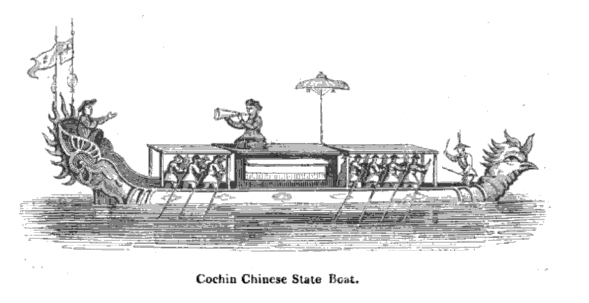 Crawfurd, John (1828), Journal of an embassy from the Governor-General of India to the courts of Siam and Cochin-China : exhibiting a view of the actual state of those kingdoms. Việt: Thuyền quan binh của người Việt Nam, năm 1828